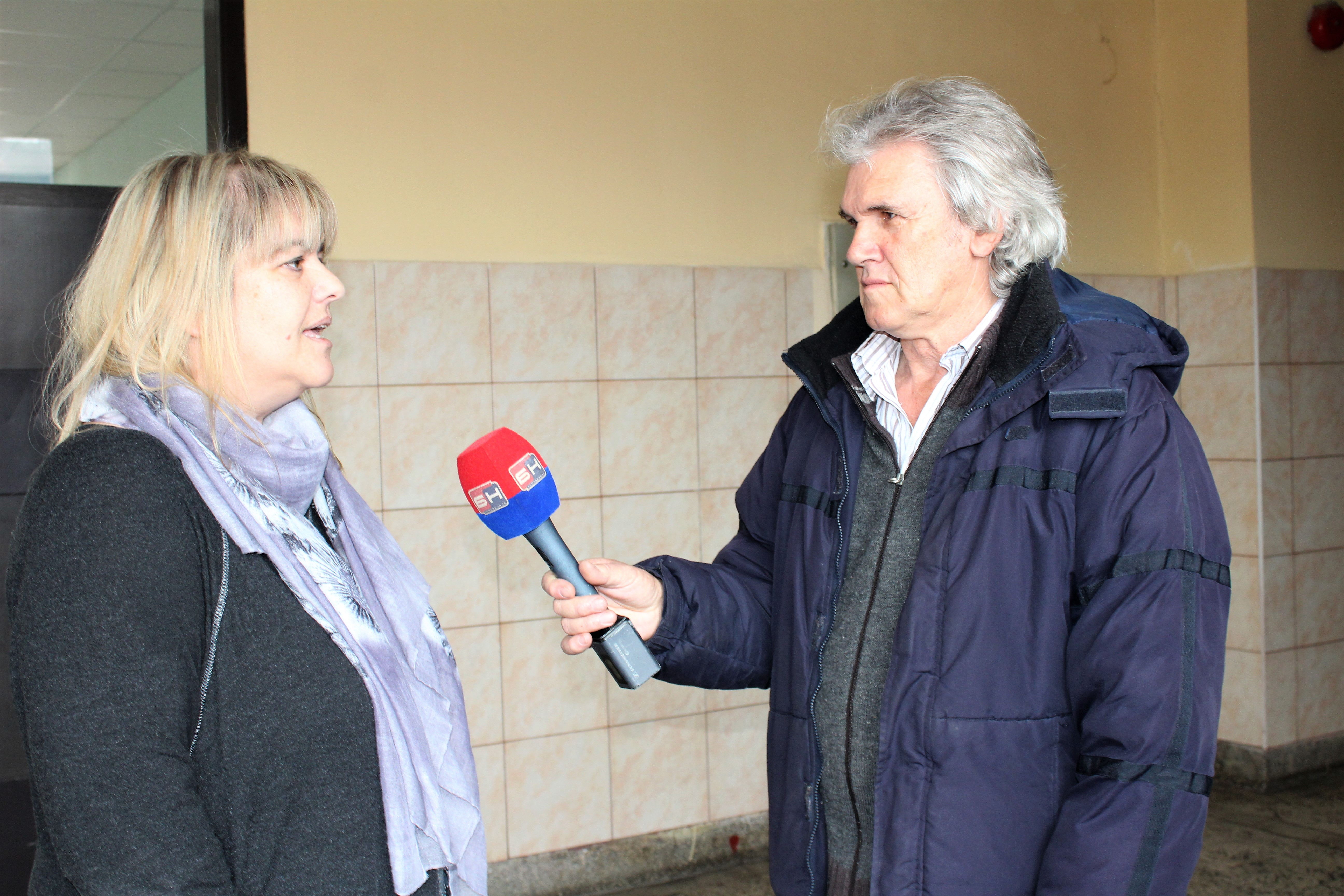 Wiki Women Republic of Srpska_edit-a-thon.